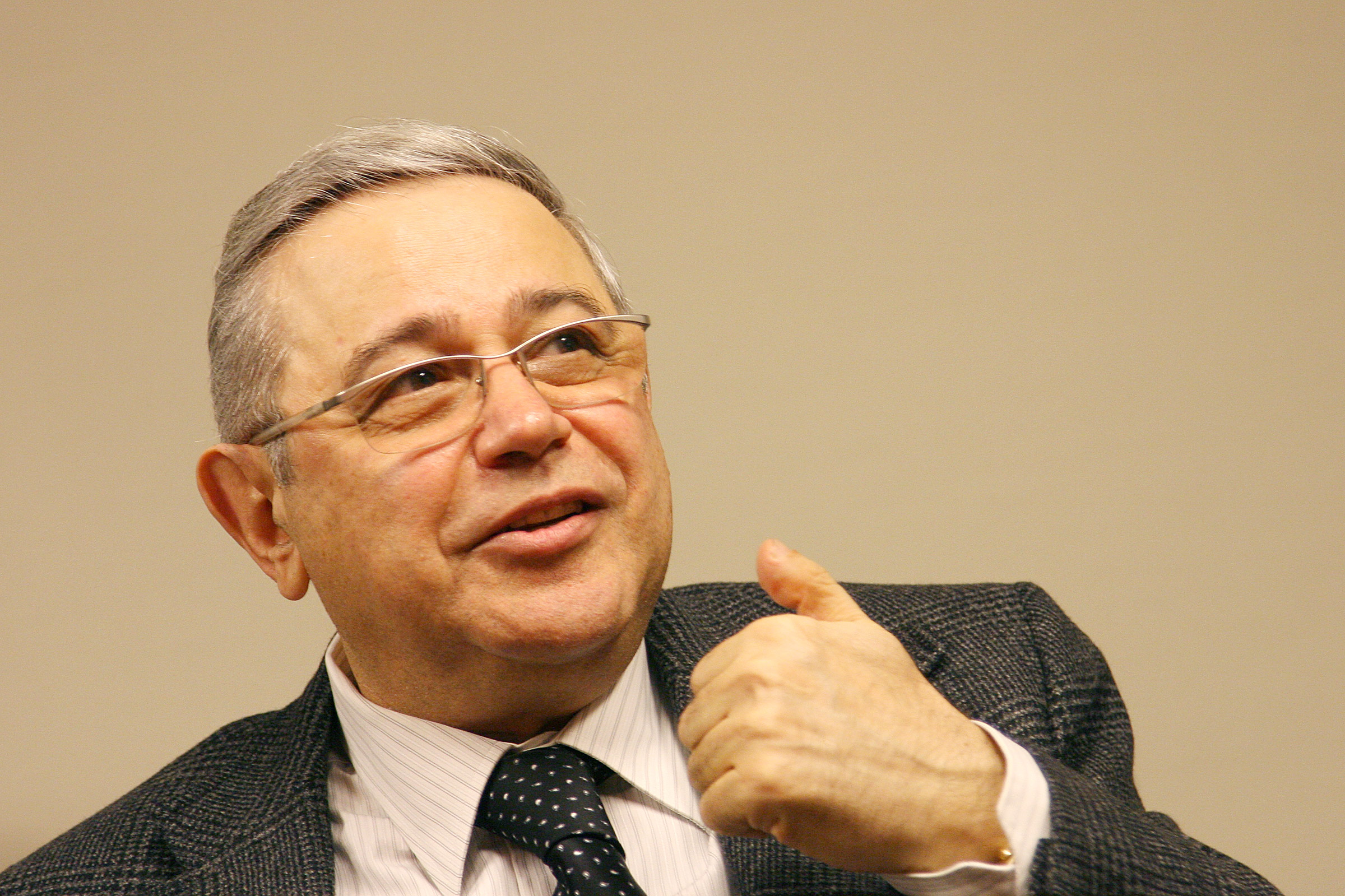 Evgeny Petrosyan